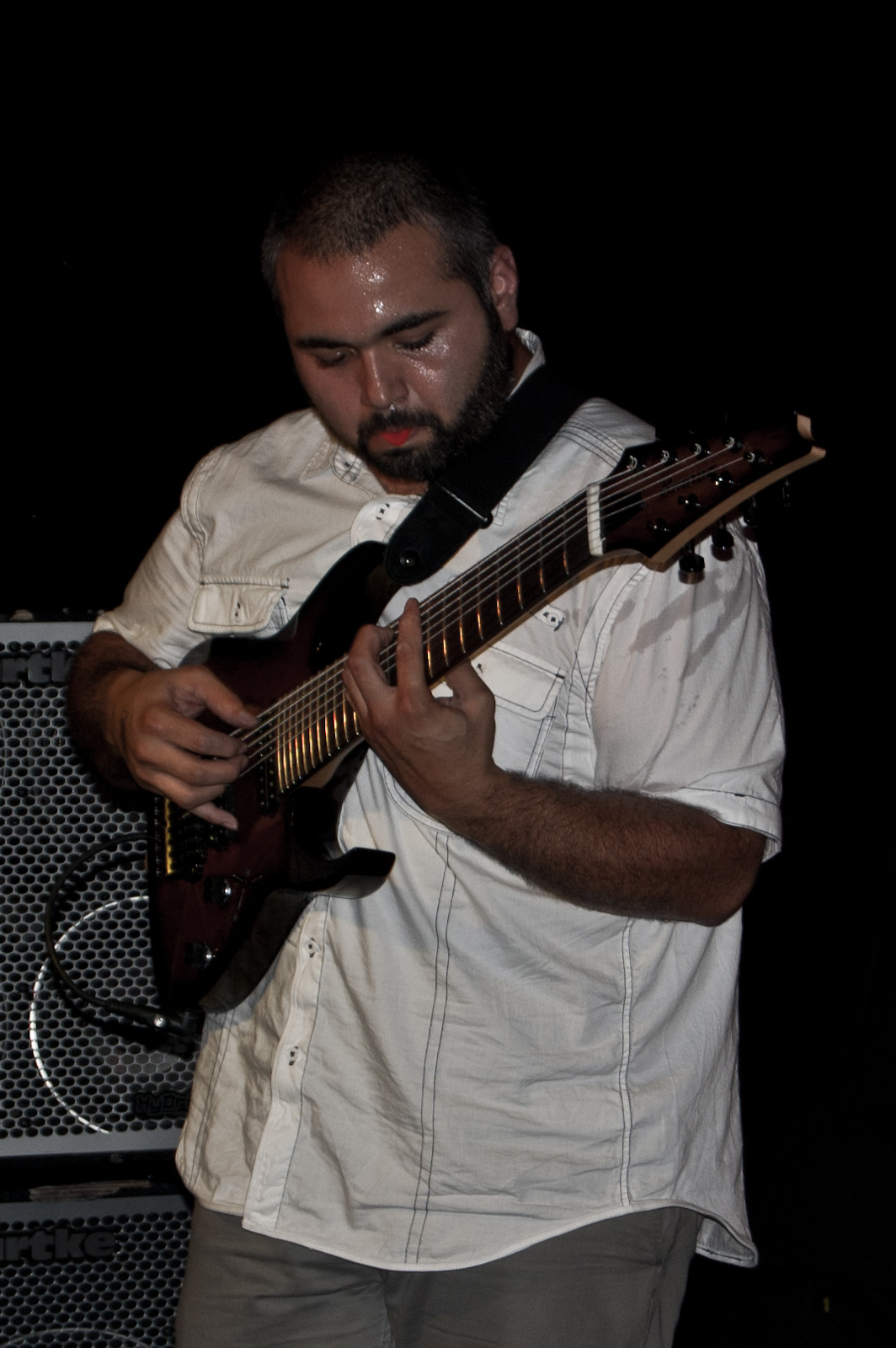 Animals as Leaders @ The Forum, Tunbridge Wells (28/08/2011)